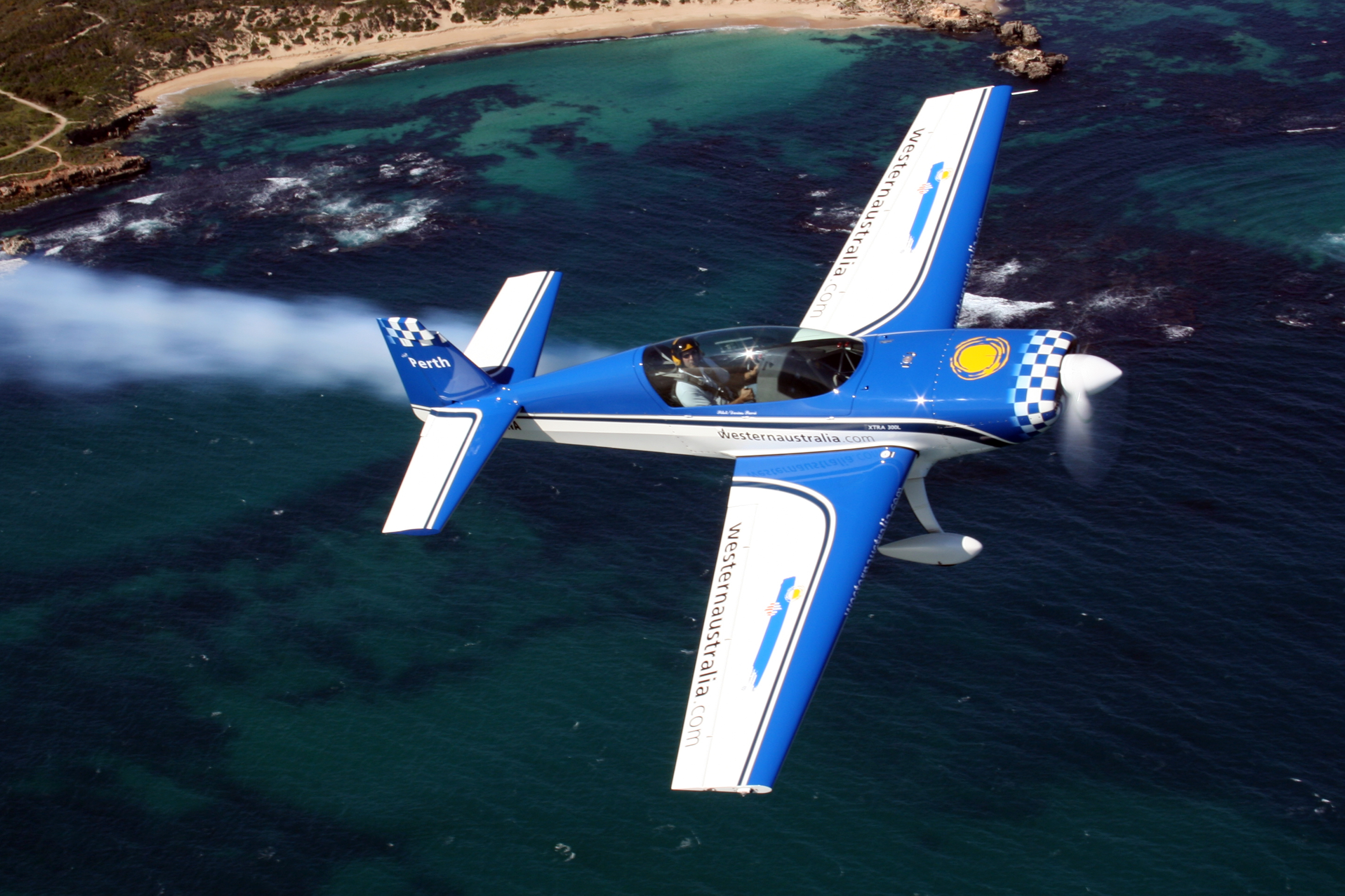 EA-300L (VH-TWA) Operated by Attitude Aerobatics, Perth Western Australia